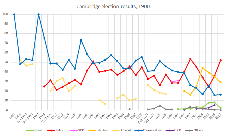 Cambridge election results